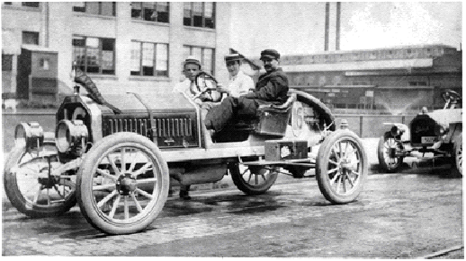 1914 Frontenac